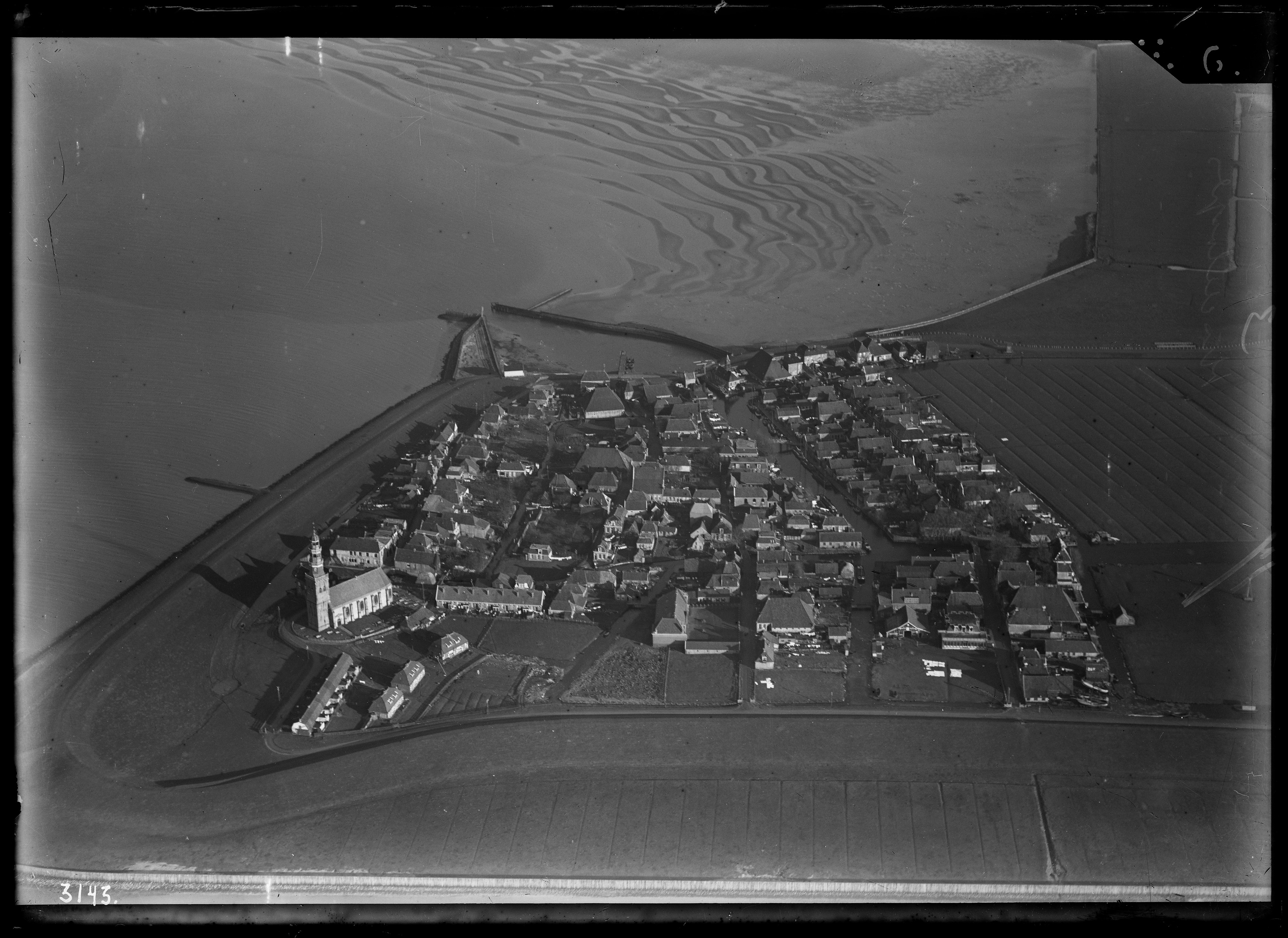 Aerial photograph of Hindeloopen, The Netherlands